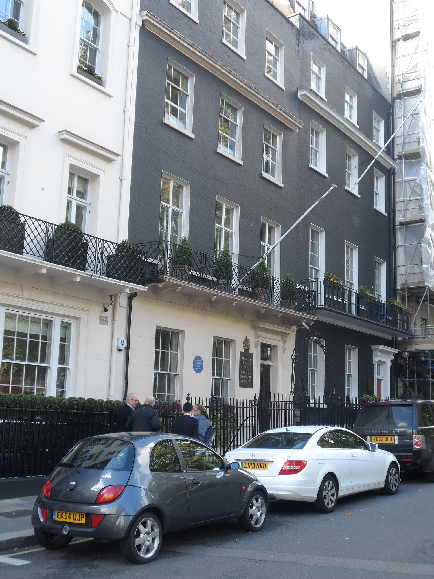 GEORGE CANNING 1770–1827 Statesman lived here